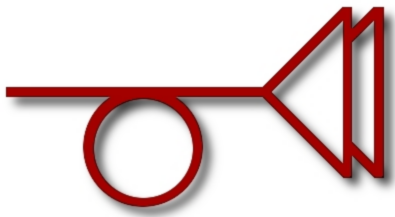 design representing a muted post-horn